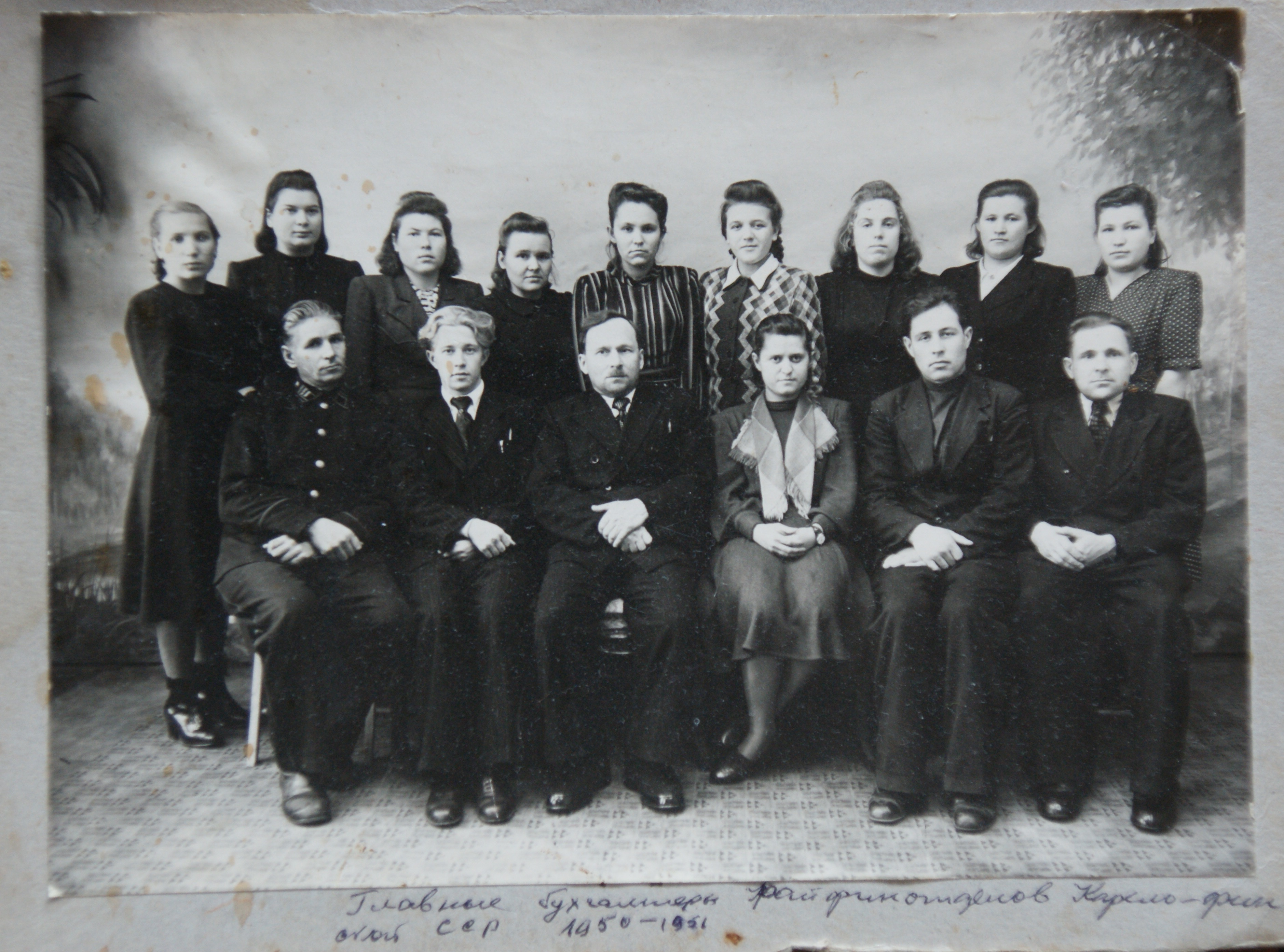 Chief accountants of the district departments of the Karelian-Finnish SSR, 1950-1951.